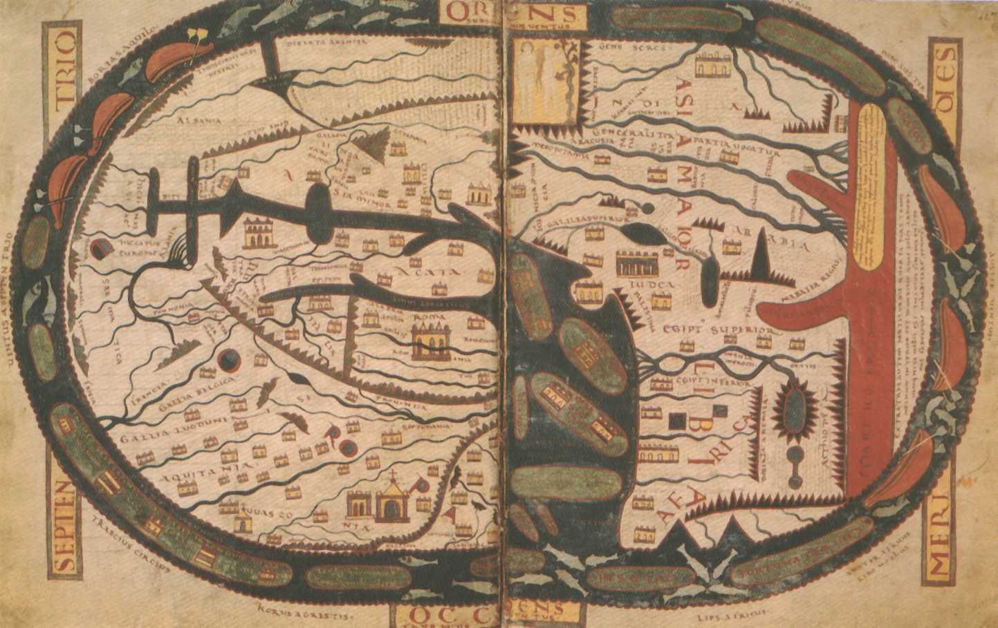 Folios 45 verso and 46 recto from the Apocalypse of Saint Sever